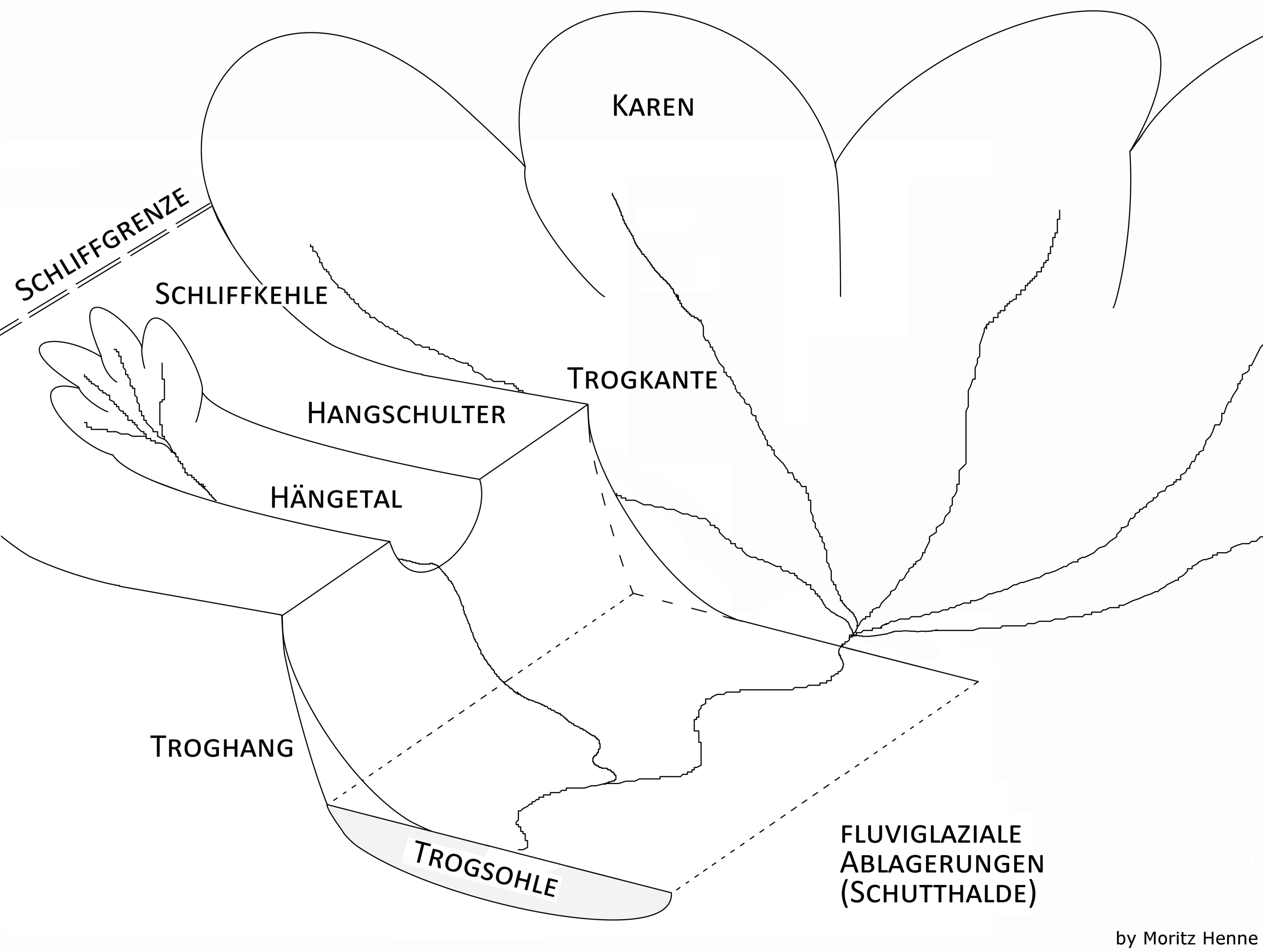 How Glacier are forming the Landscape